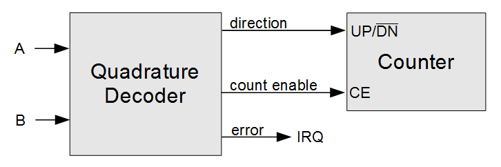 A quadrature decoder circuit, commonly used to convert the A and B signals from a rotary or linear incremental encoder into the direction and clock enable signals needed for controlling a synchronous up/down counter.